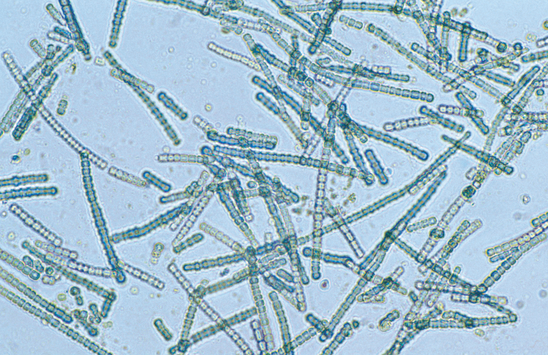 A blue-green algae species – Cylindrospermum sp – under magnification at the Adelaide laboratories of CSIRO Land and Water, 1993.